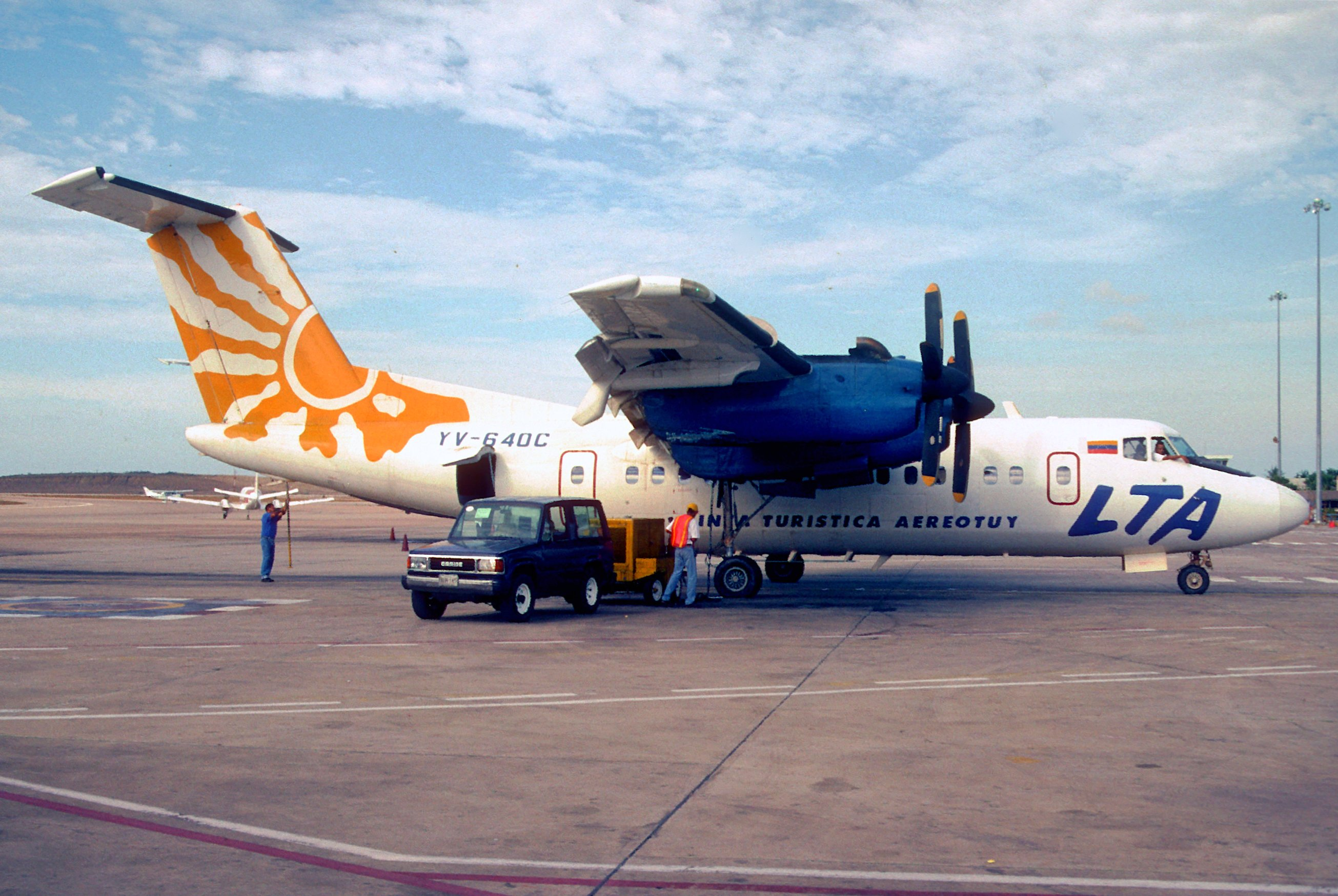 154ac - LTA - Linea Turistica Aerotuy DHC-7-102 Dash 7;YV-640C@PMV;15.10.2001